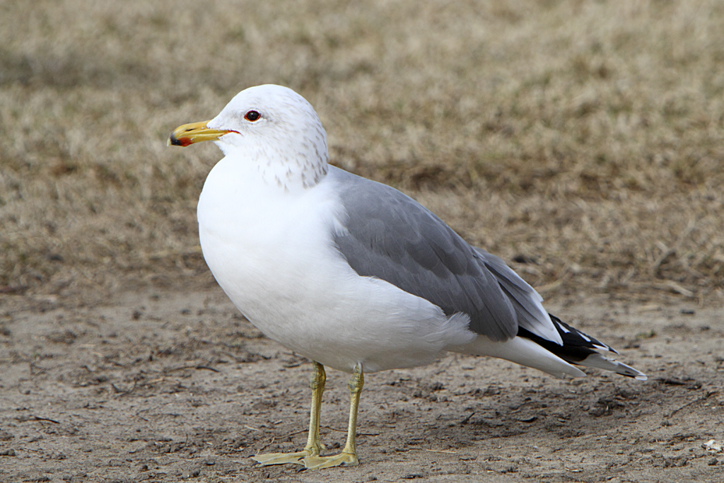 Larus californicus at Oceano, California.